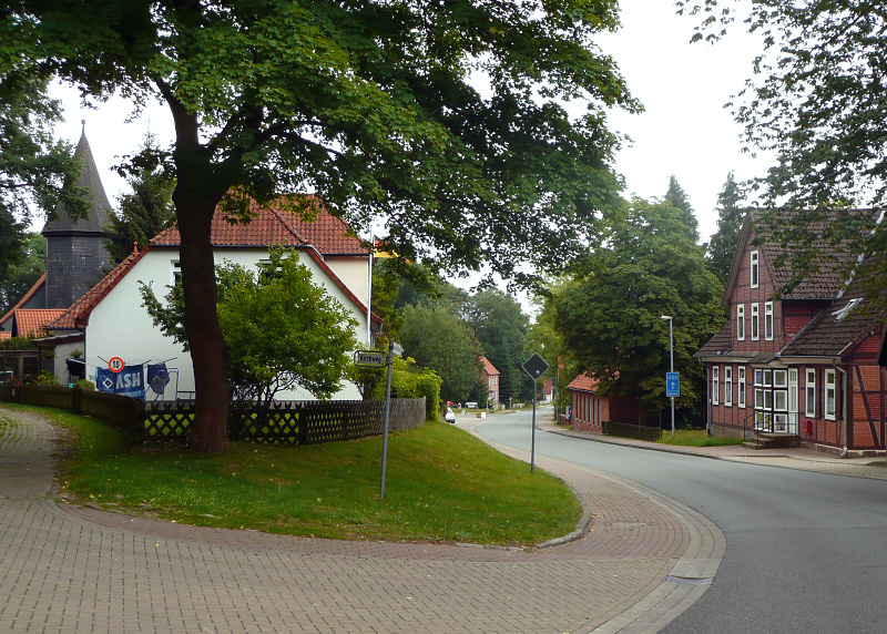 Ostenholz church, Lüneburg Heath, Lower Saxony, Germany.